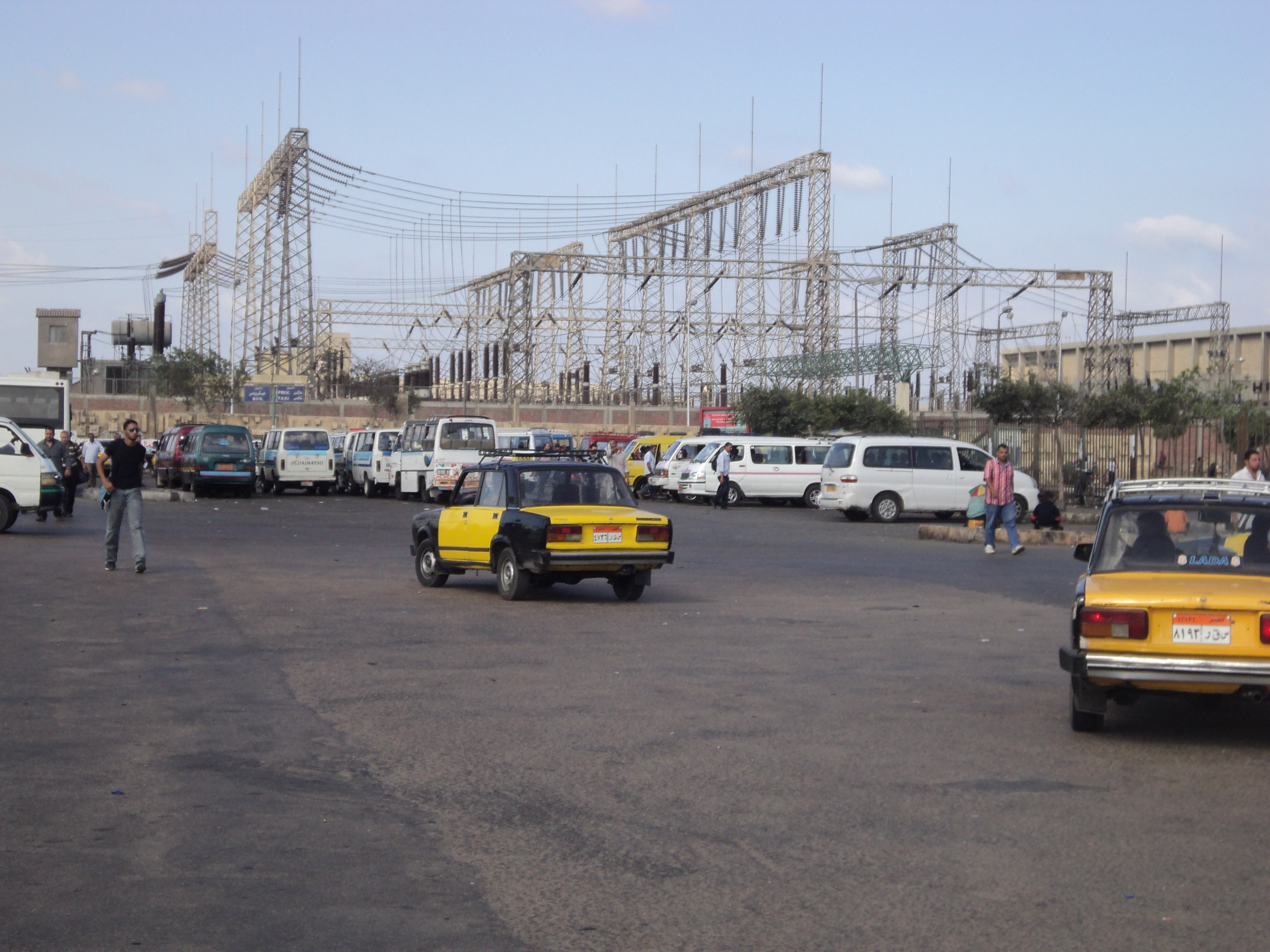 Alexandria's Taxi station at Moharem Bey.